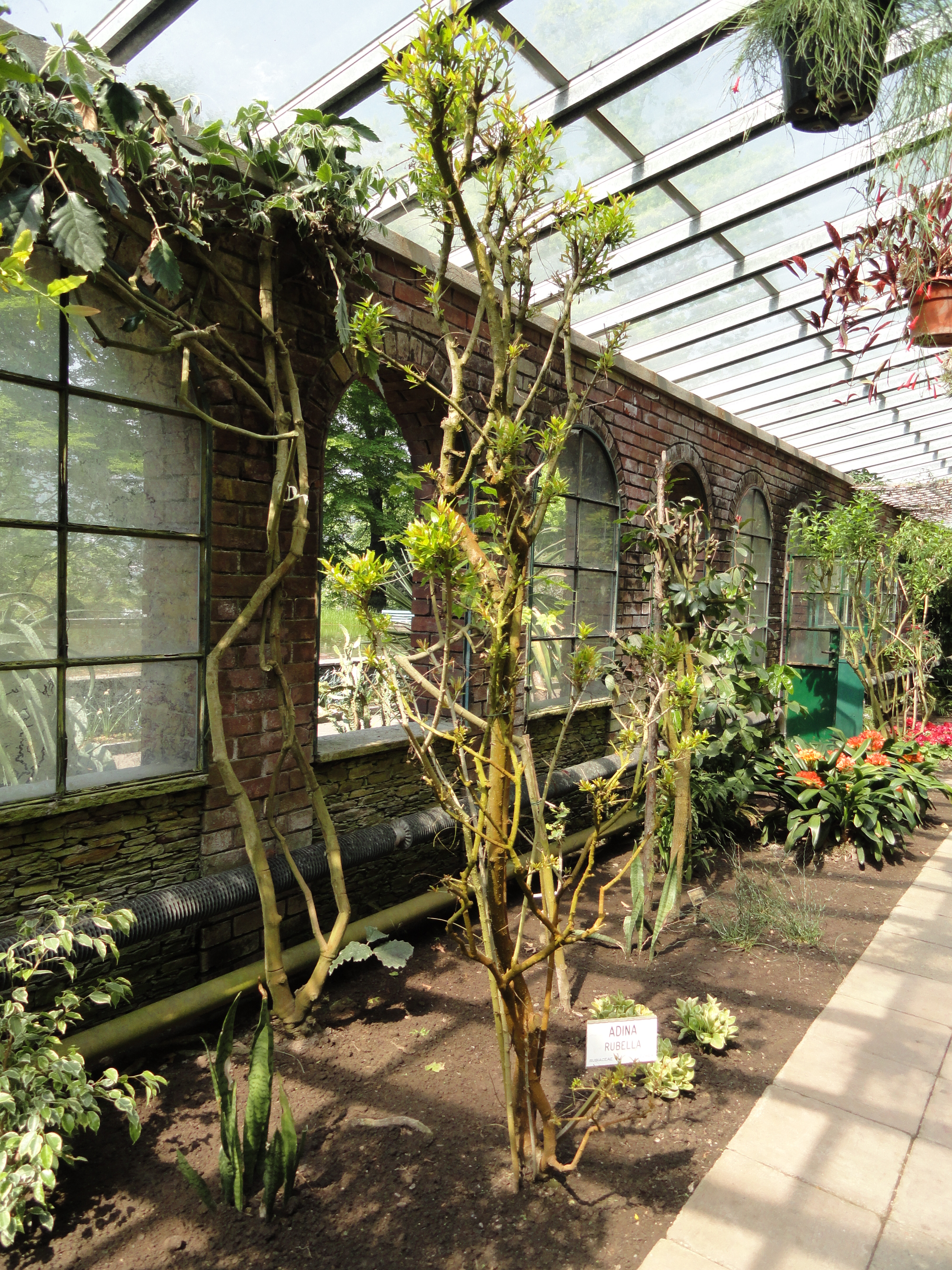 Adina rubella. Botanical specimen on the grounds of the Villa Taranto (Verbania), Lake Maggiore, Italy.